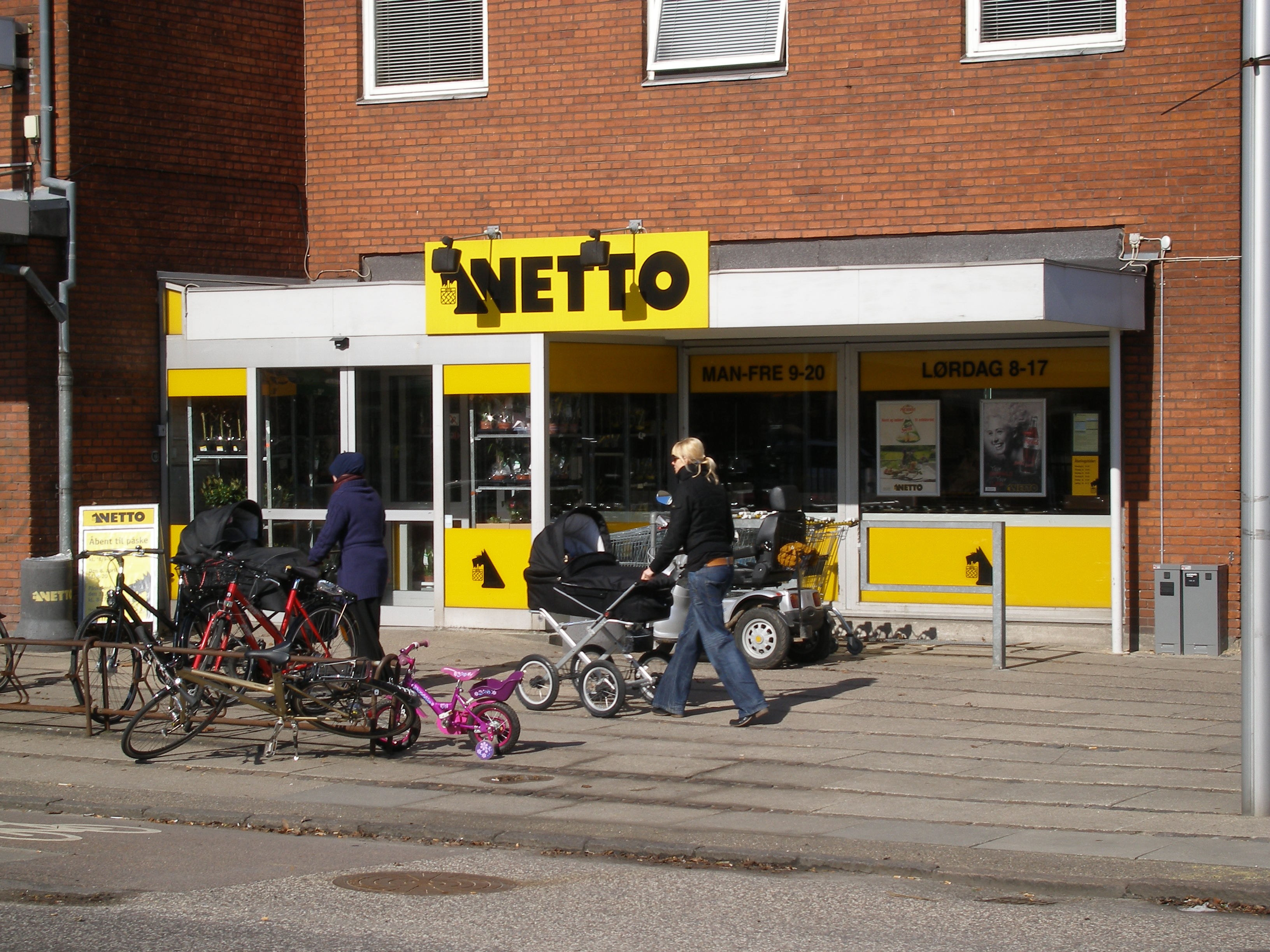 Netto supermarket in Glostrup near Copenhagen, Denmark